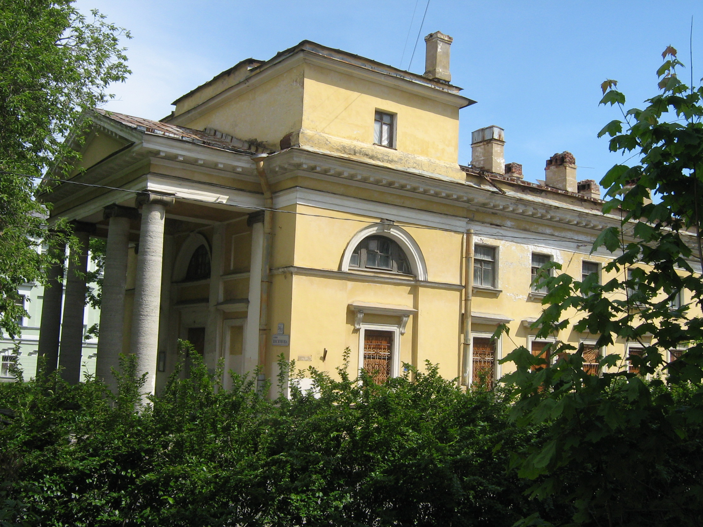 Saint Petersburg (Russia), Kronstadt.